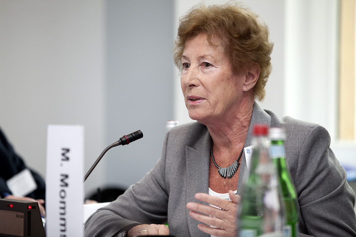 Margareta Mommsen, political scientist from Germany, at the Luxembourg Institute for European and International Studies conference Arno J. Mayer – Critical Junctures in Modern History, 10-11 May 2013, Casino Luxembourg.